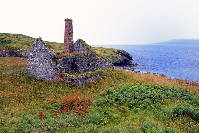 A ruined chapel on Nave Island, Islay, Argyll and Bute, Scotland.To get there was a two hour journey from Port Askaig.